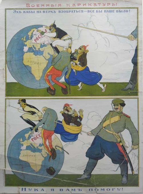 World War I Russian military caricature depicting Kaiser Wilhelm II, Emperor Franz Joseph I and Sultan Mehmed V. Top: "Oh, if only we could get to the top - it would all be ours!" Bottom: "Let me help you with that!"